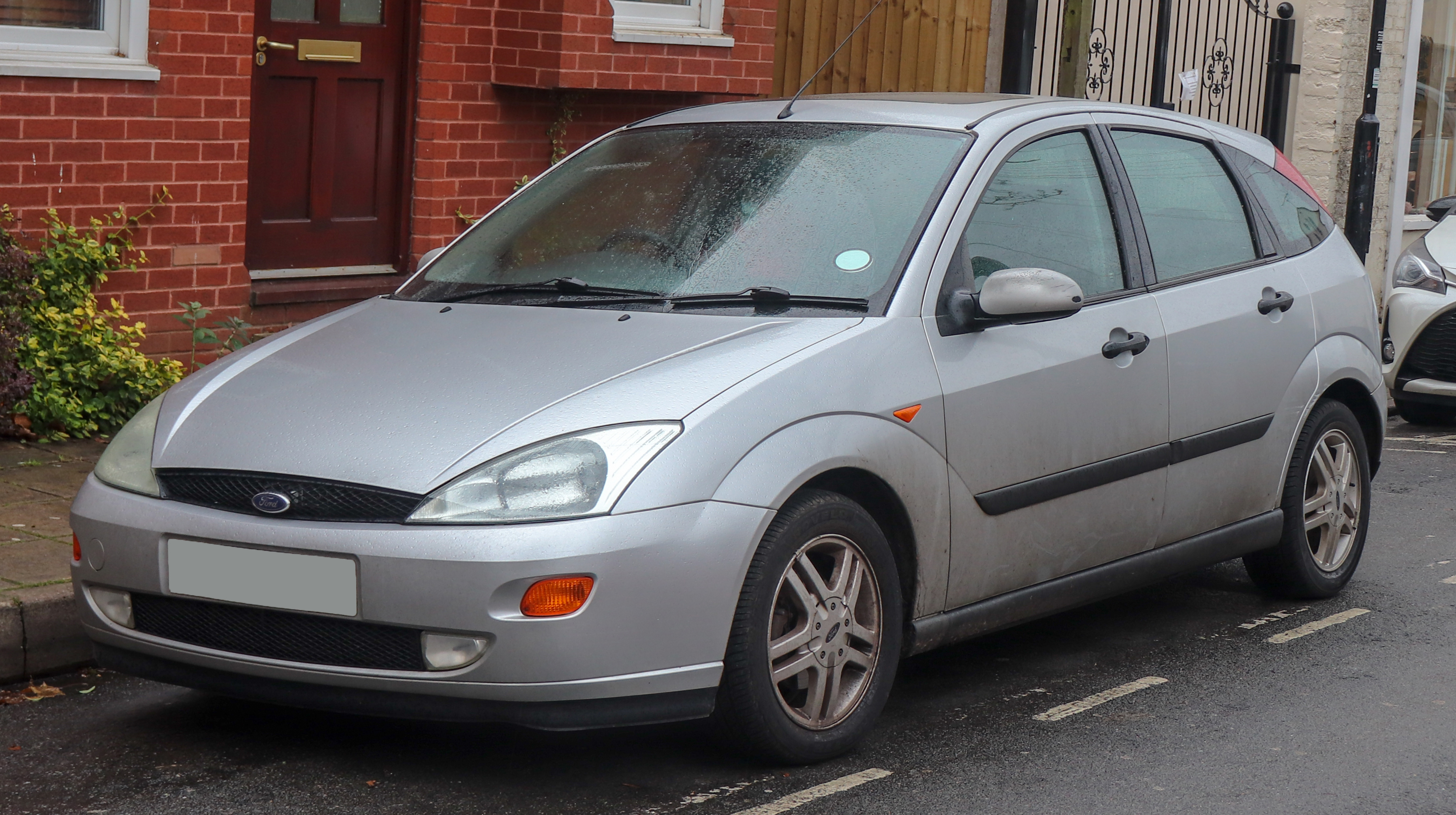 1998 Ford Focus Zetec 1.8 Front (Early S Reg Registered 30th October 1998) Taken in Leamington Spa